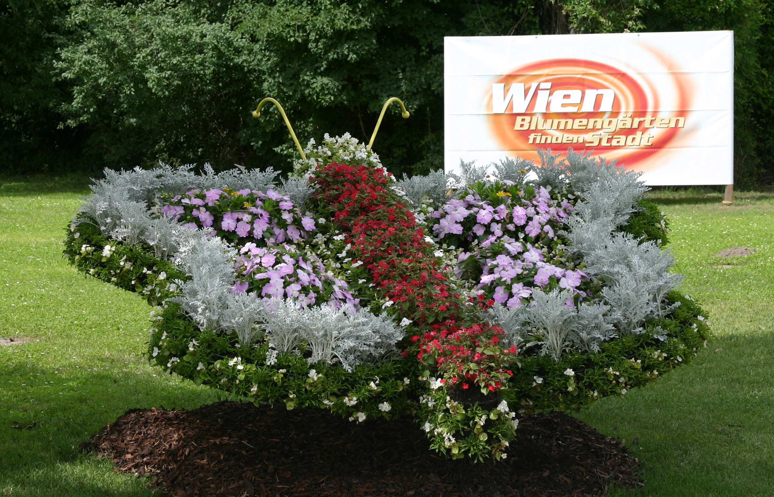 Flowers butterfly in the Blumengärten Hirschstetten ,Vienna.